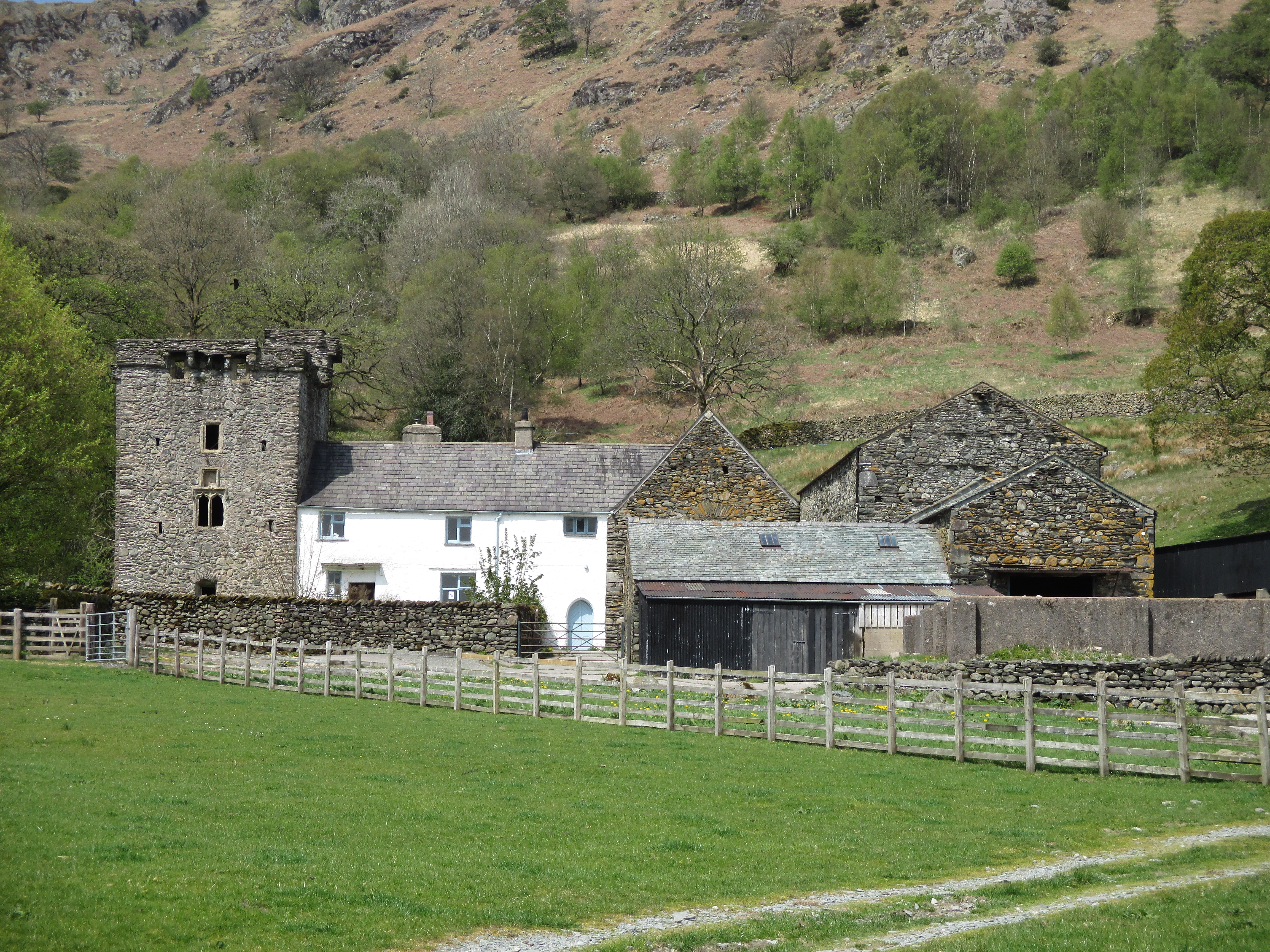 Kentmere Hall, Kentmere, Cumbria, and its farm buildings, seen from the south-east.